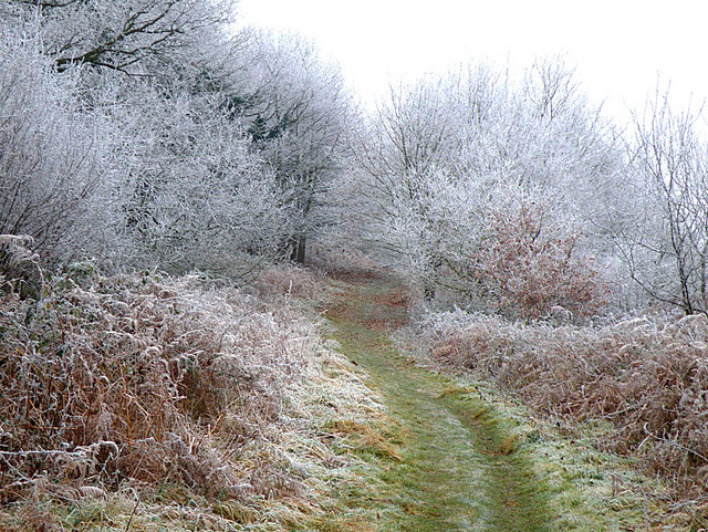 Footpath on Coppet Hill on a frosty New Year's Day